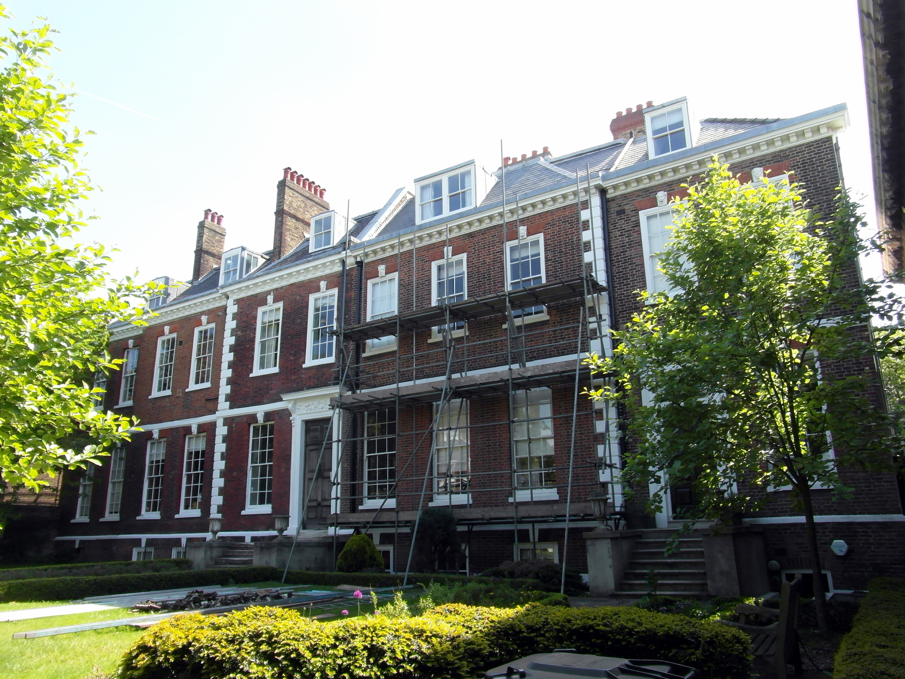 Dartmouth Row, Blackheath. A single house of 1689, divided in 1890 and two bay extension added to the left in the 19th century.